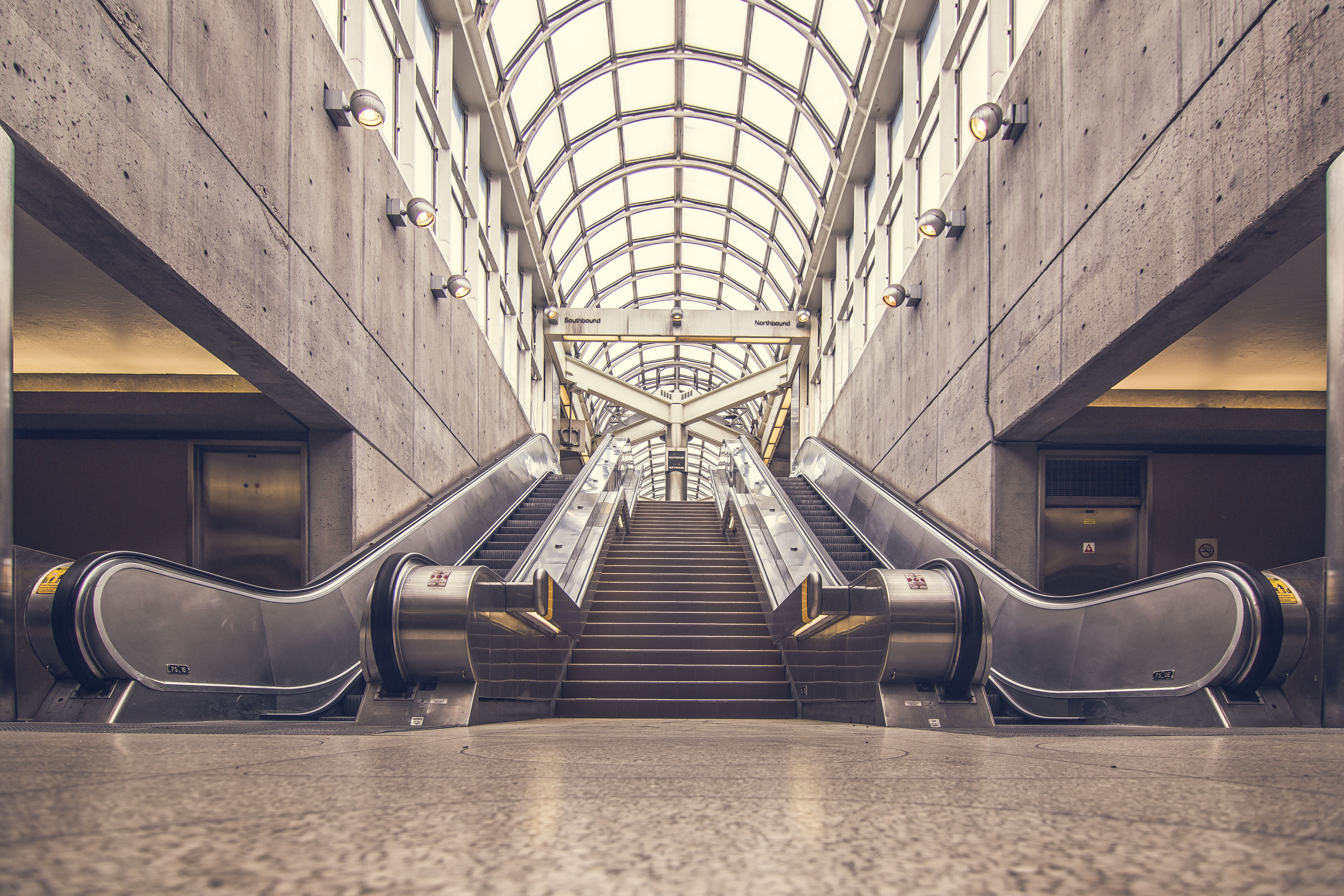 Escalators leading to the platform at Yorkdale subway station; facing north.